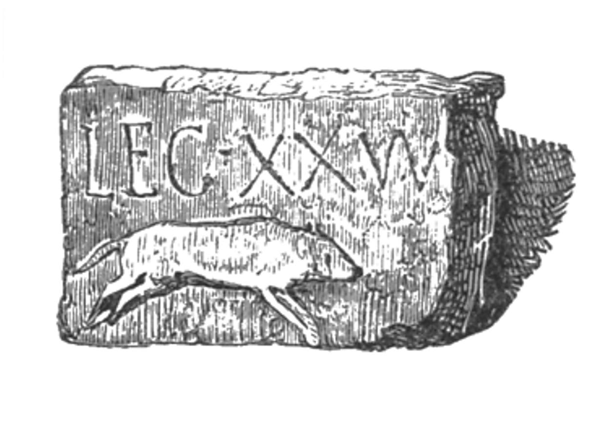 Building inscription of the Twentieth Legion, Find date before 1835. Find by the Reverent A. Hedley in a field-wall near Vindolanda fort. Later built into the passage to the burn from the house at Vindolanda, now in Chesters Museum.